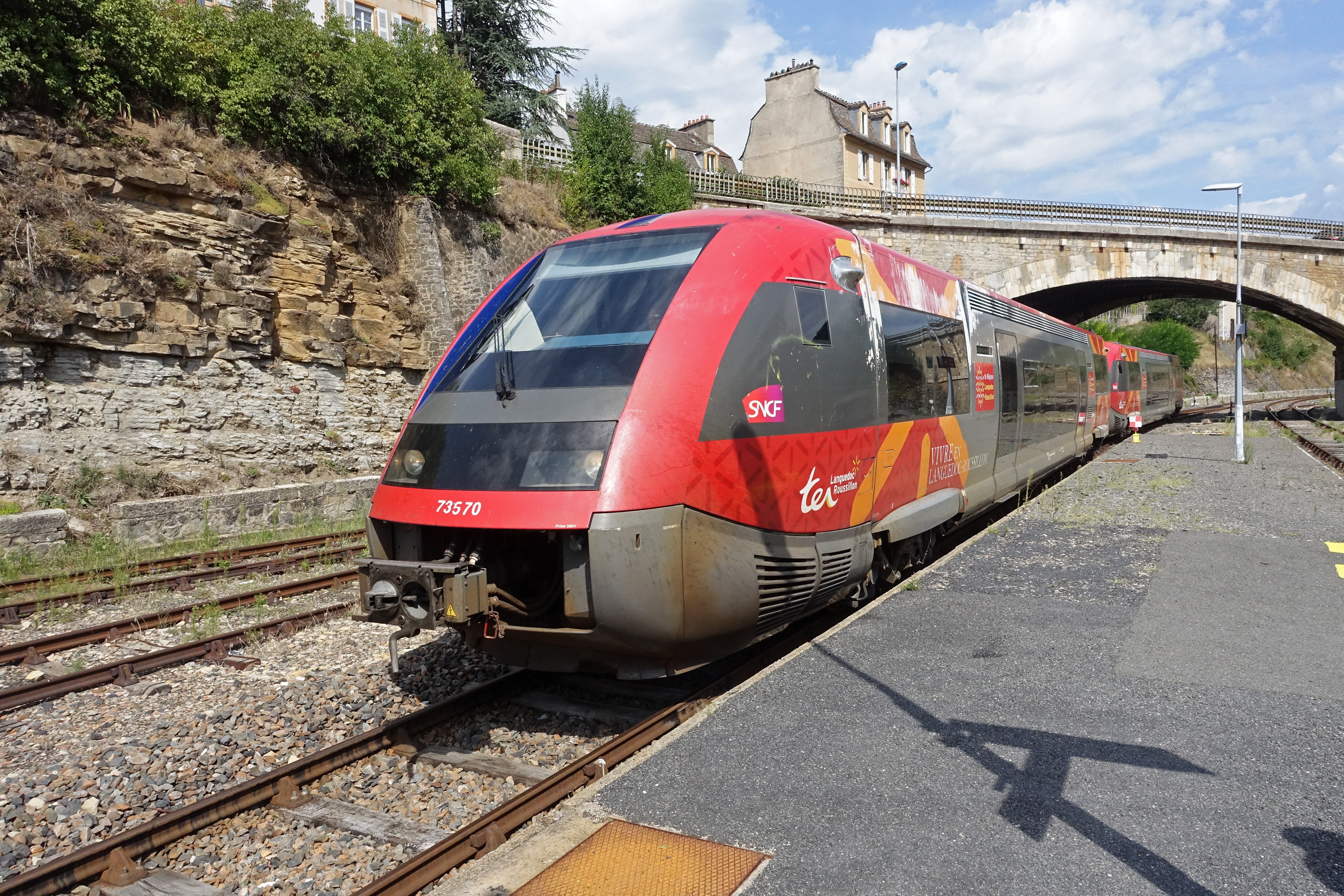 SNCF Class X 73500 in Mende station